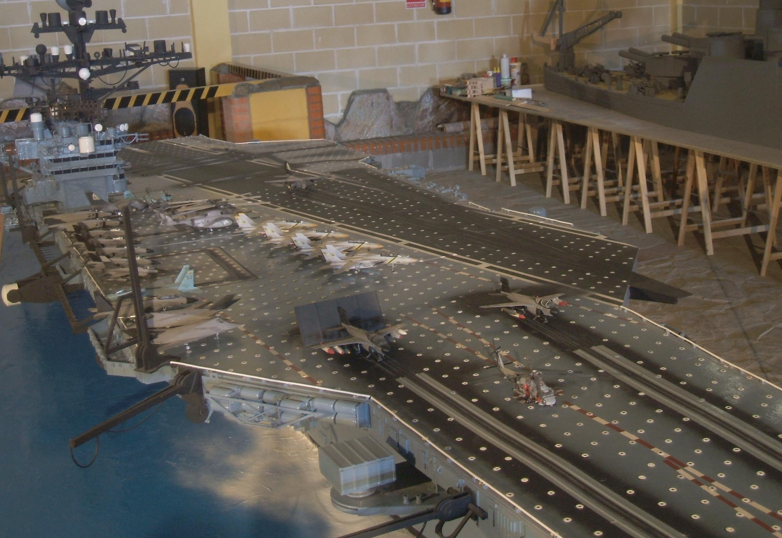 Portaaviones USS J.F. Kennedy en escala 1/72 en el Museo Grand Central de Pobladura del Valle.